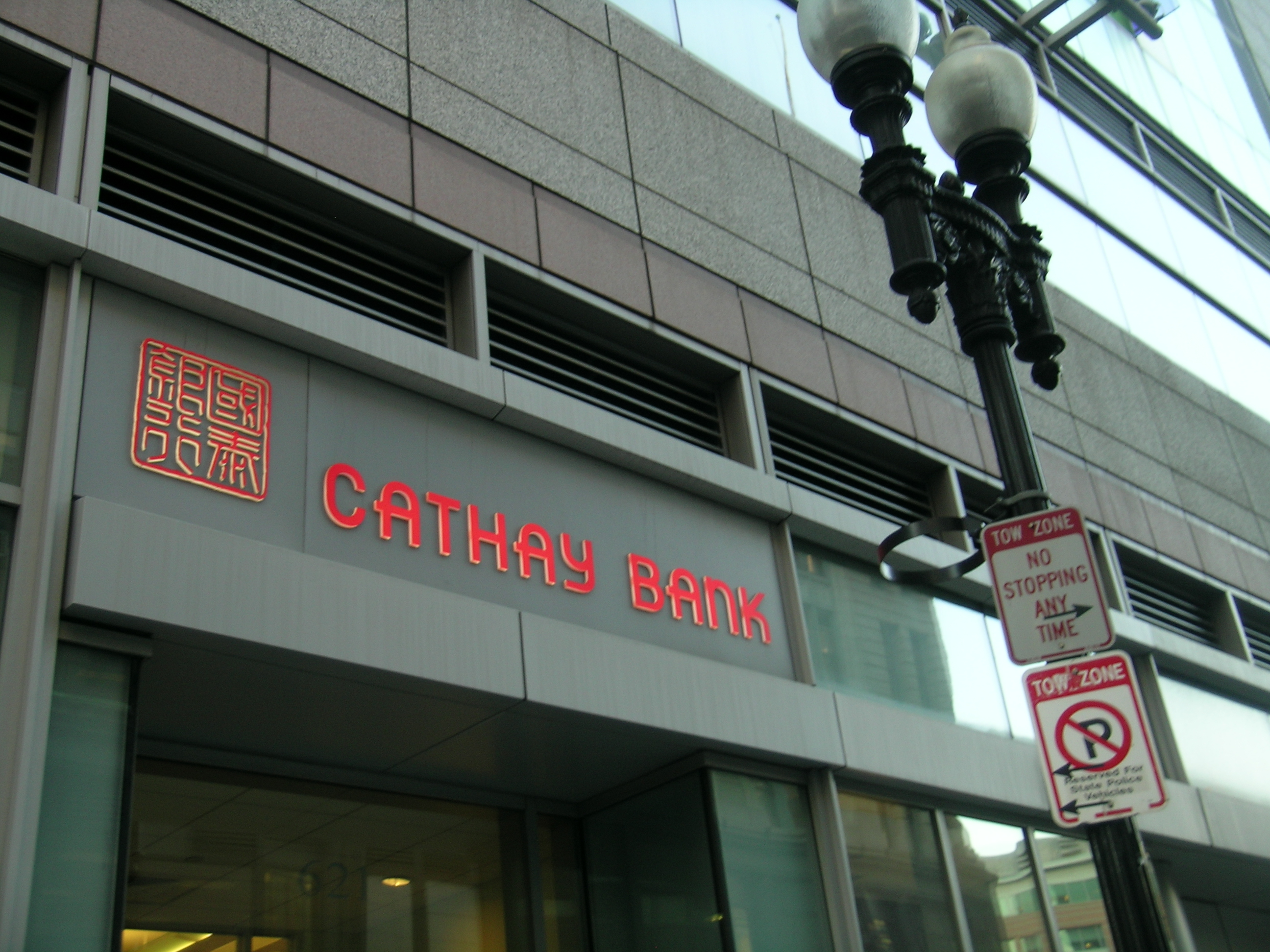 Cathay Bank in Chinatown, Boston, Massachusetts, United States. March 2008 photo by John Stephen Dwyer